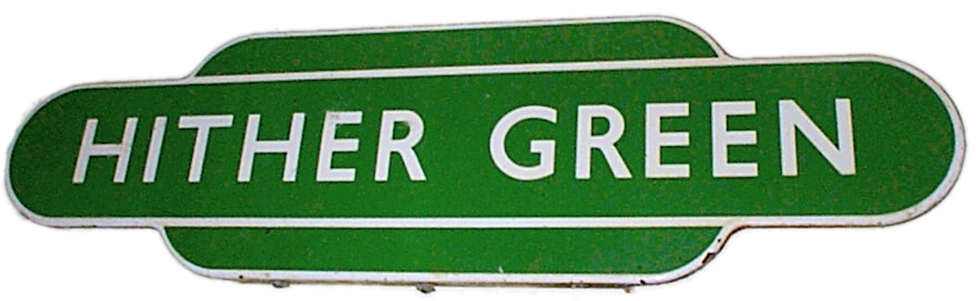 British Railways Southern Region station "totem" for Hither Green.jpg